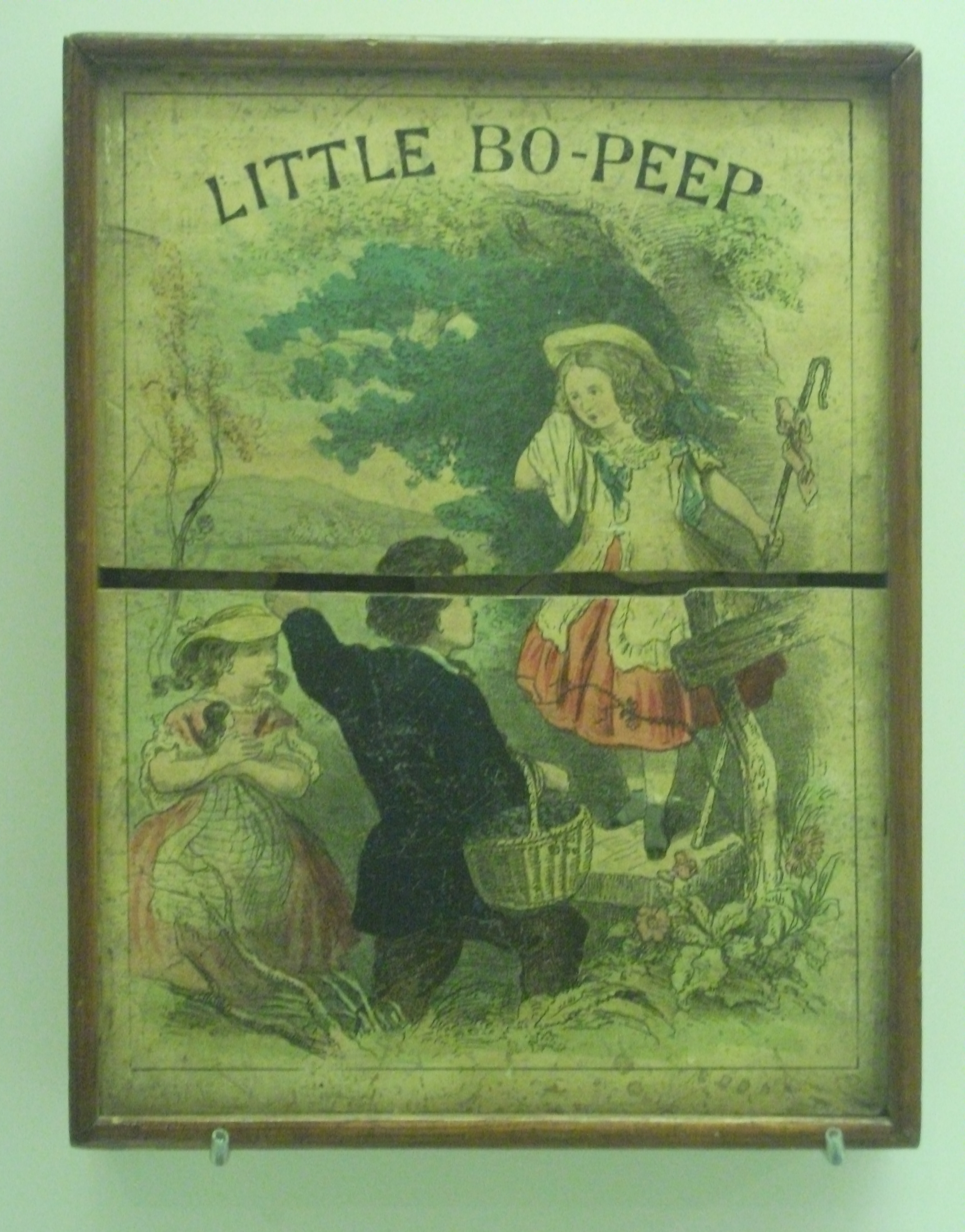 A nineteenth century educational game called "LITTLE BO-PEEP", on display at Bedford Museum.